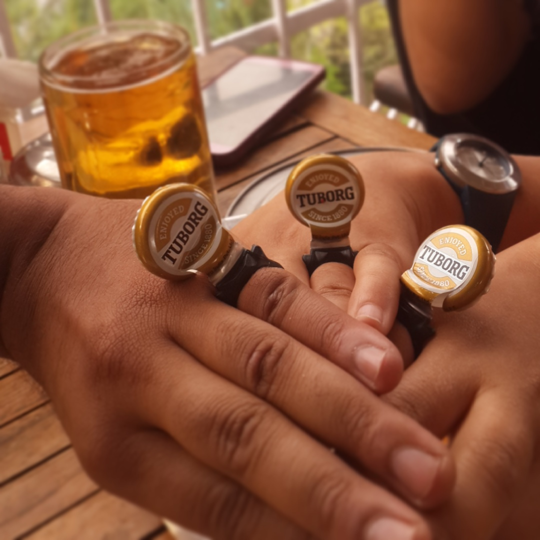 Image showing people wearing cap of Tuborg beer as rings